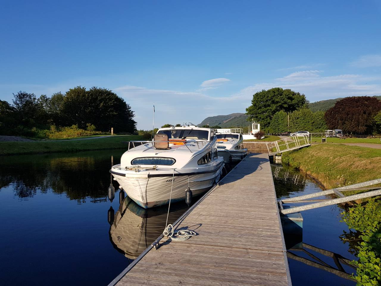 Dochgarroch Lock on Caledonian Canal in Scottish Highlands